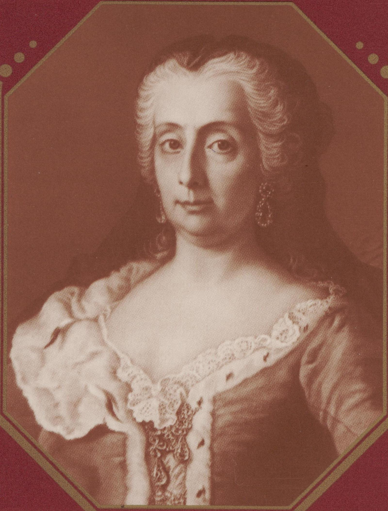 Stamp of the Principality of Liechtenstein; 1980; commemorative stamp of the issue "EUROPA (C.E.P.T.), 1980 - Famous Personalities"; stamp drawing with a painting of the Princess Maria Theresia of Liechtenstein (1694-1772); painting by Martin van Meytens (1695-1770) in the style of the baroque; mint stamp